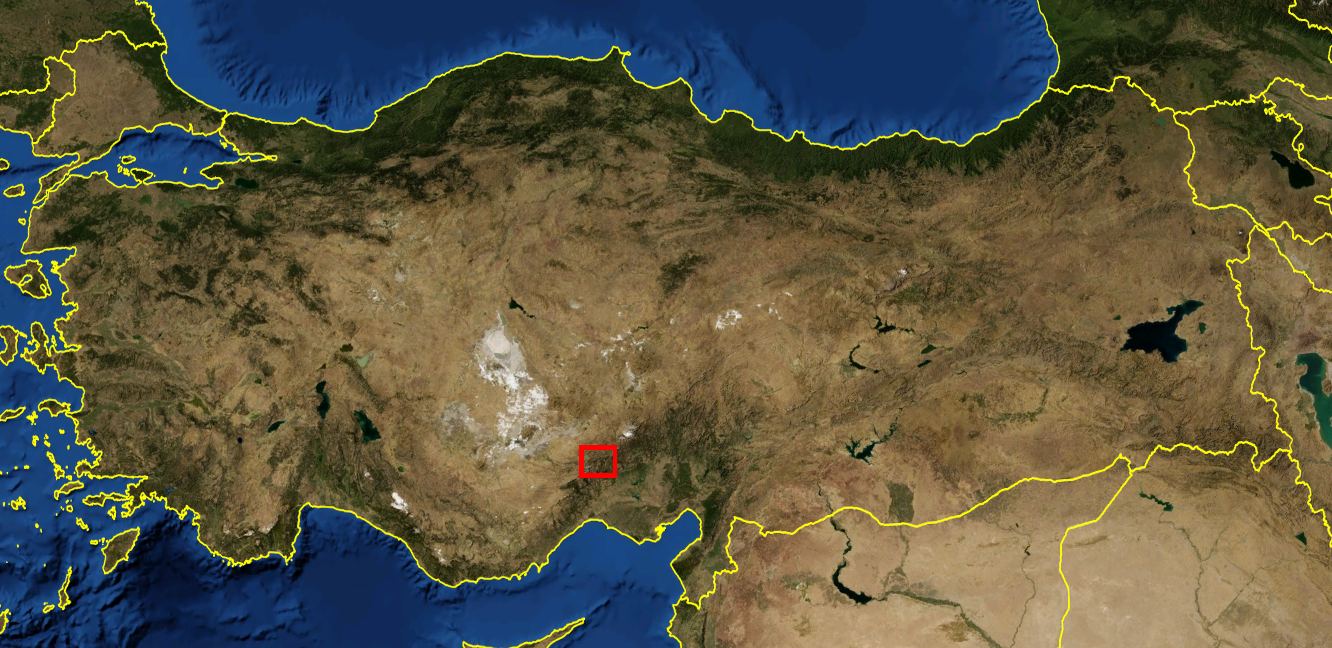 Satellite view (from NASA World Wind - public domain), where I indicate the location of Bolkar range in Turkey